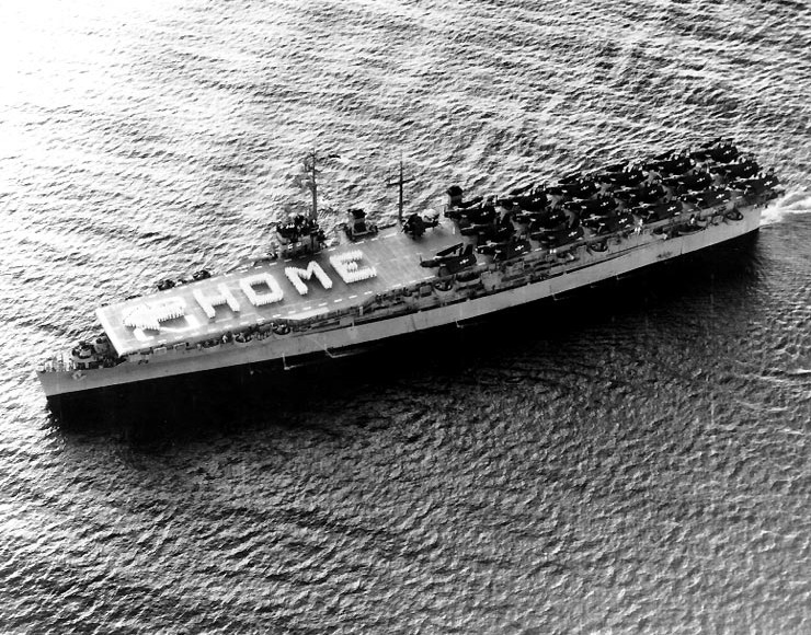 The U.S. Navy light aircraft carrier USS Bataan (CVL-29) photographed on 22 May 1953, as she was en route to Naval Air Station San Diego, California (USA), following a deployment to Korean waters. Note the crew paraded on the flight deck spelling out the word "HOME" and an arrow pointing over her bow. The aircraft on deck include 19 Grumman AF Guardian anti-submarine planes and a solitary Vought F4U Corsair fighter (parked amidships on the starboard side).